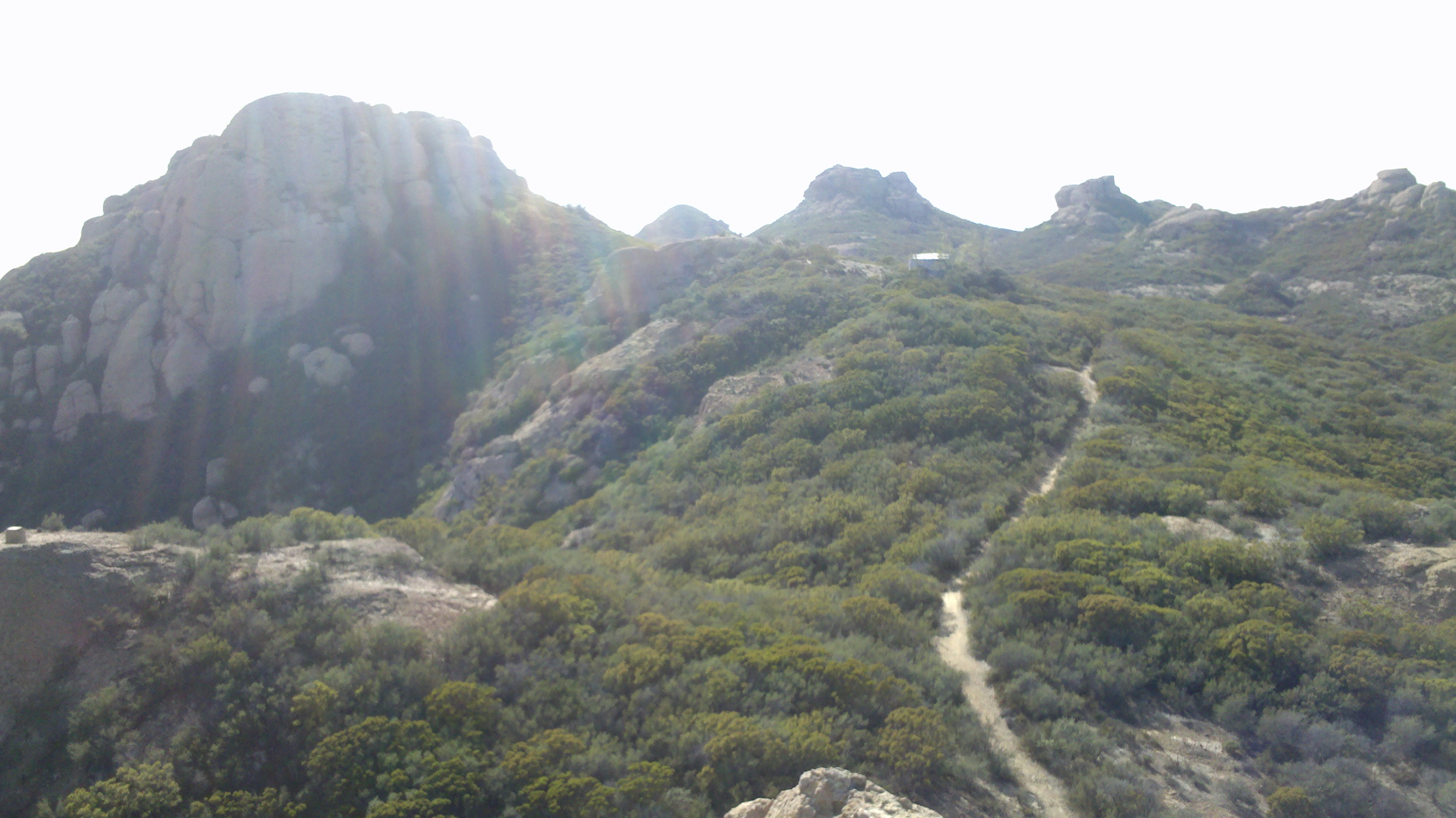 from left to right, Inspiration Point, Exchange Point and Tri Peaks